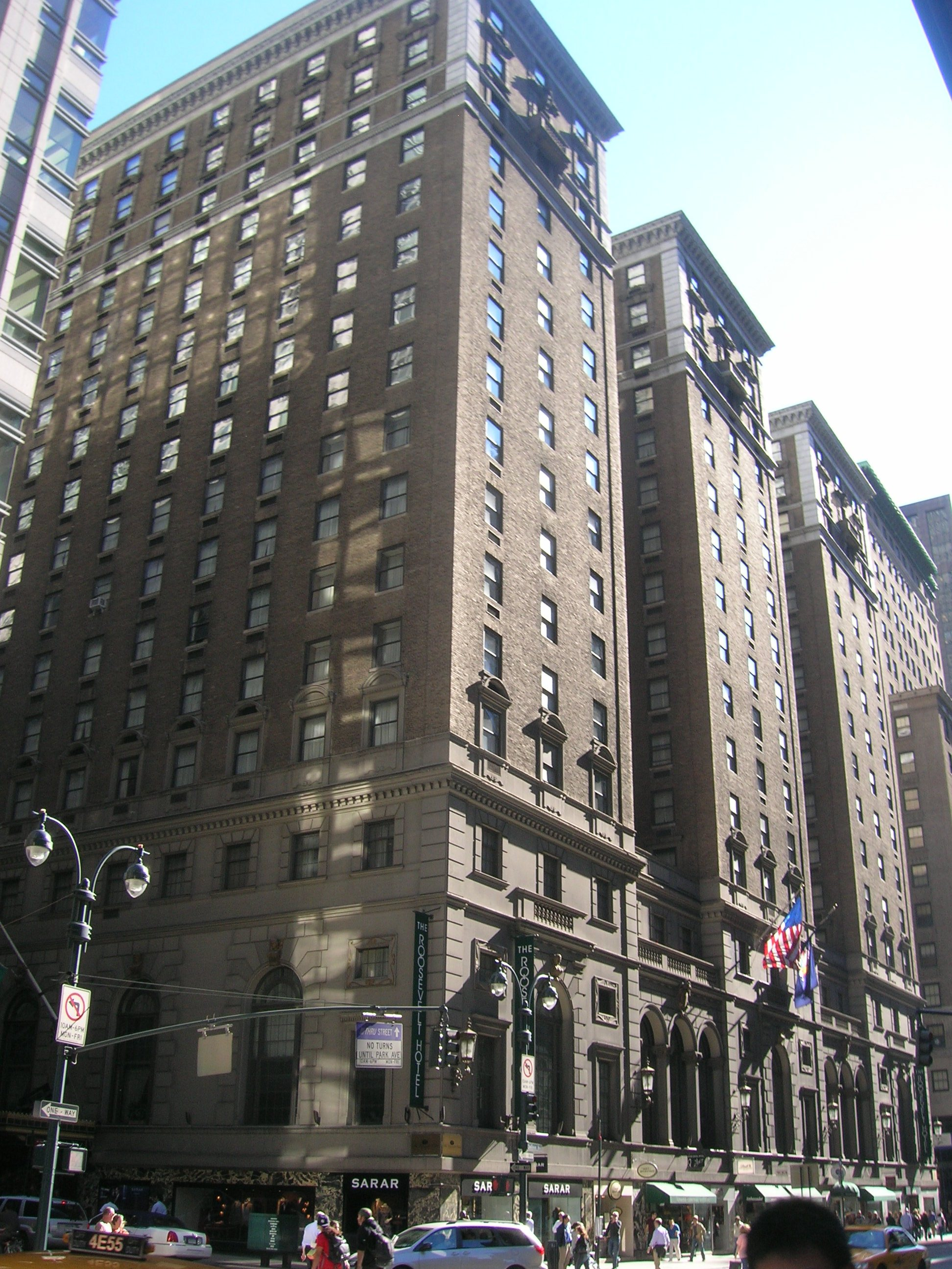 This is where we stayed while we were in New York